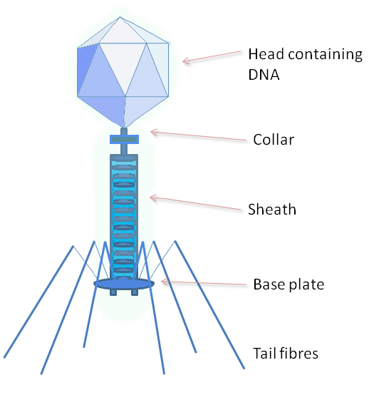 The structure of a typical bacteriophage